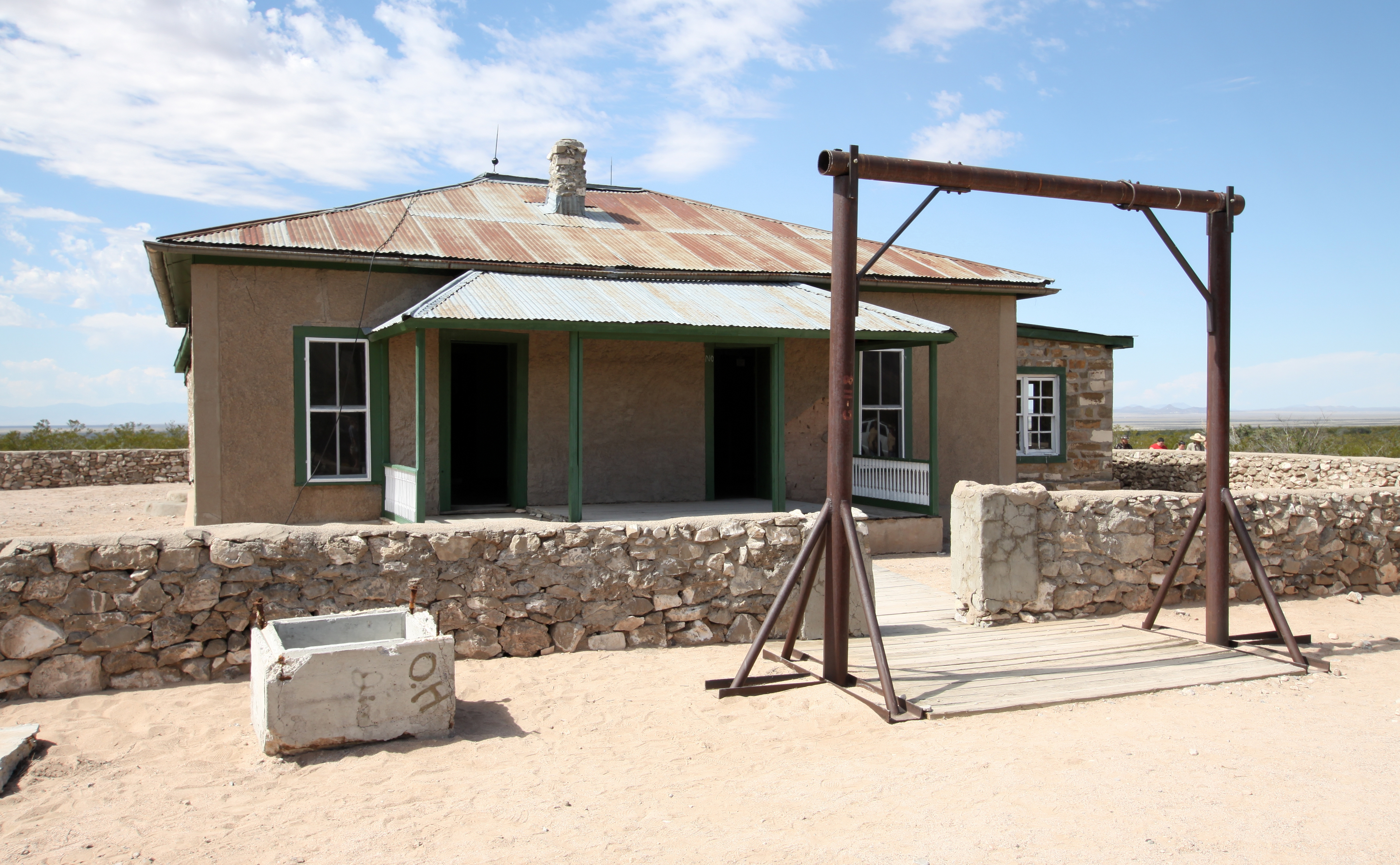 Looking at the front of the McDonald-Schmidt Ranch House. The concrete box in front of the stone wall is the remnant of a time capsule buried in 1984 when the house was restored. The time capsule was opened in Oct 2009. The ranch was used for assembling Gadget's plutonium core.